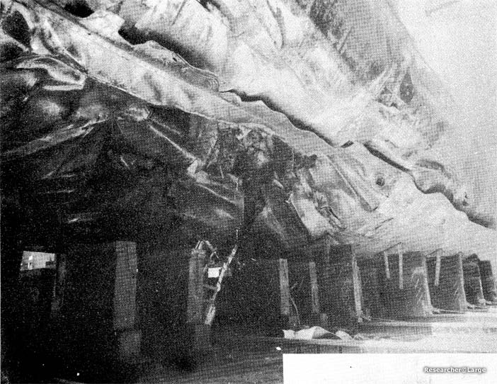 9-16-1944 USS Wadleigh made contact with an underwater mine that detonated off the coast of Palau Islands.